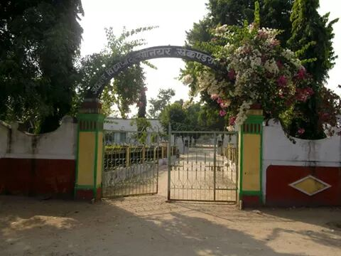 JVP School, Kanore